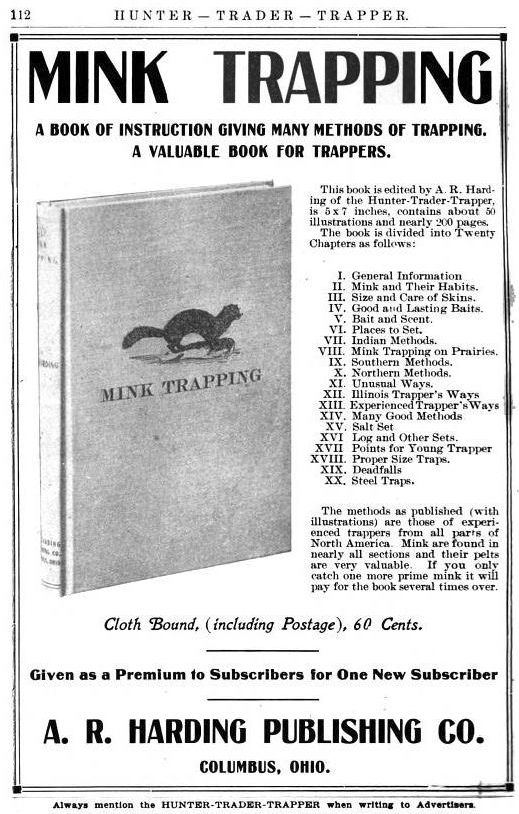 Advertisement for Mink Trapping